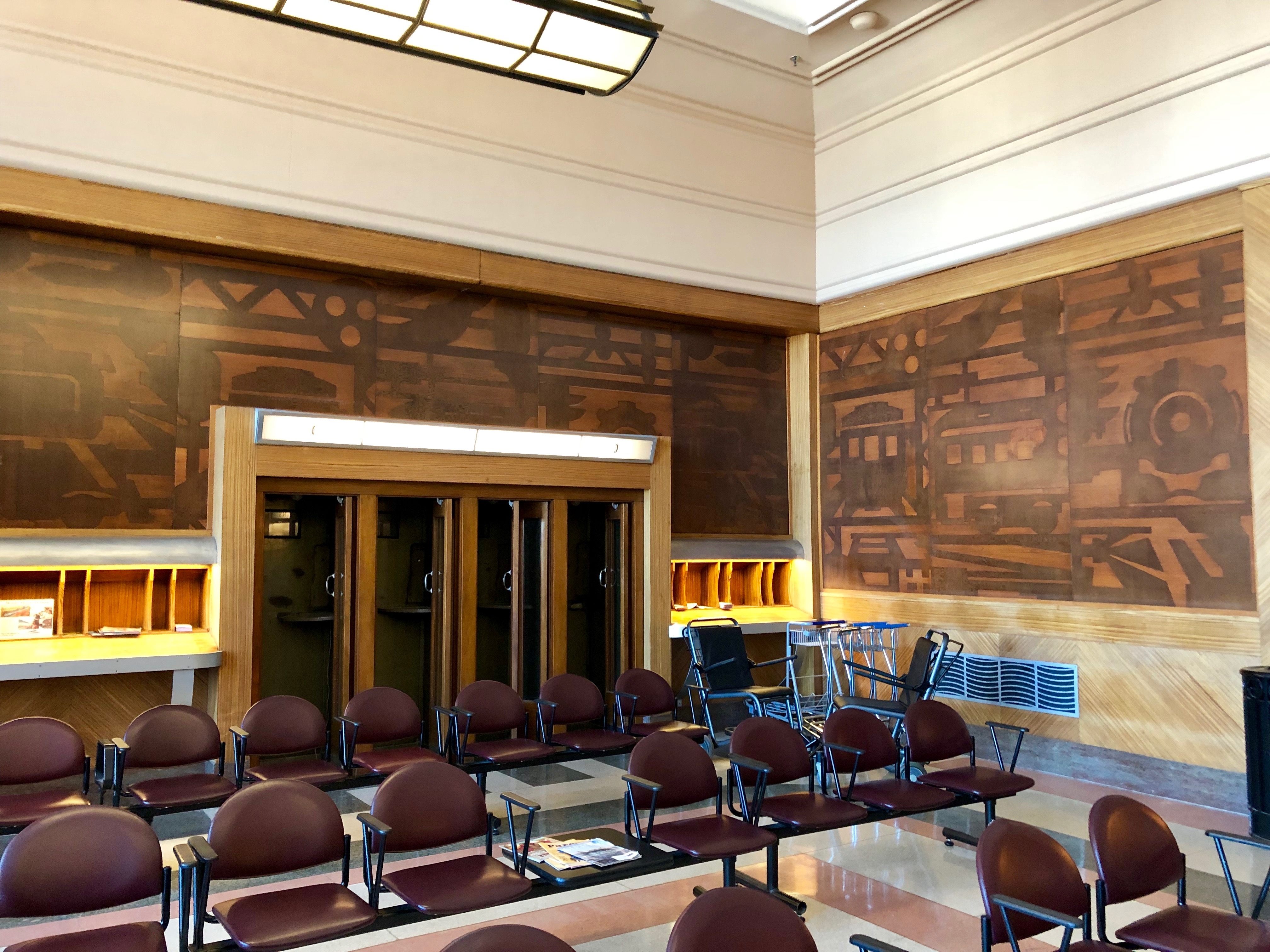 Amtrak Waiting Room (Gentlemen's Lounge), Cincinnati Union Terminal, Queensgate, Cincinnati, OH